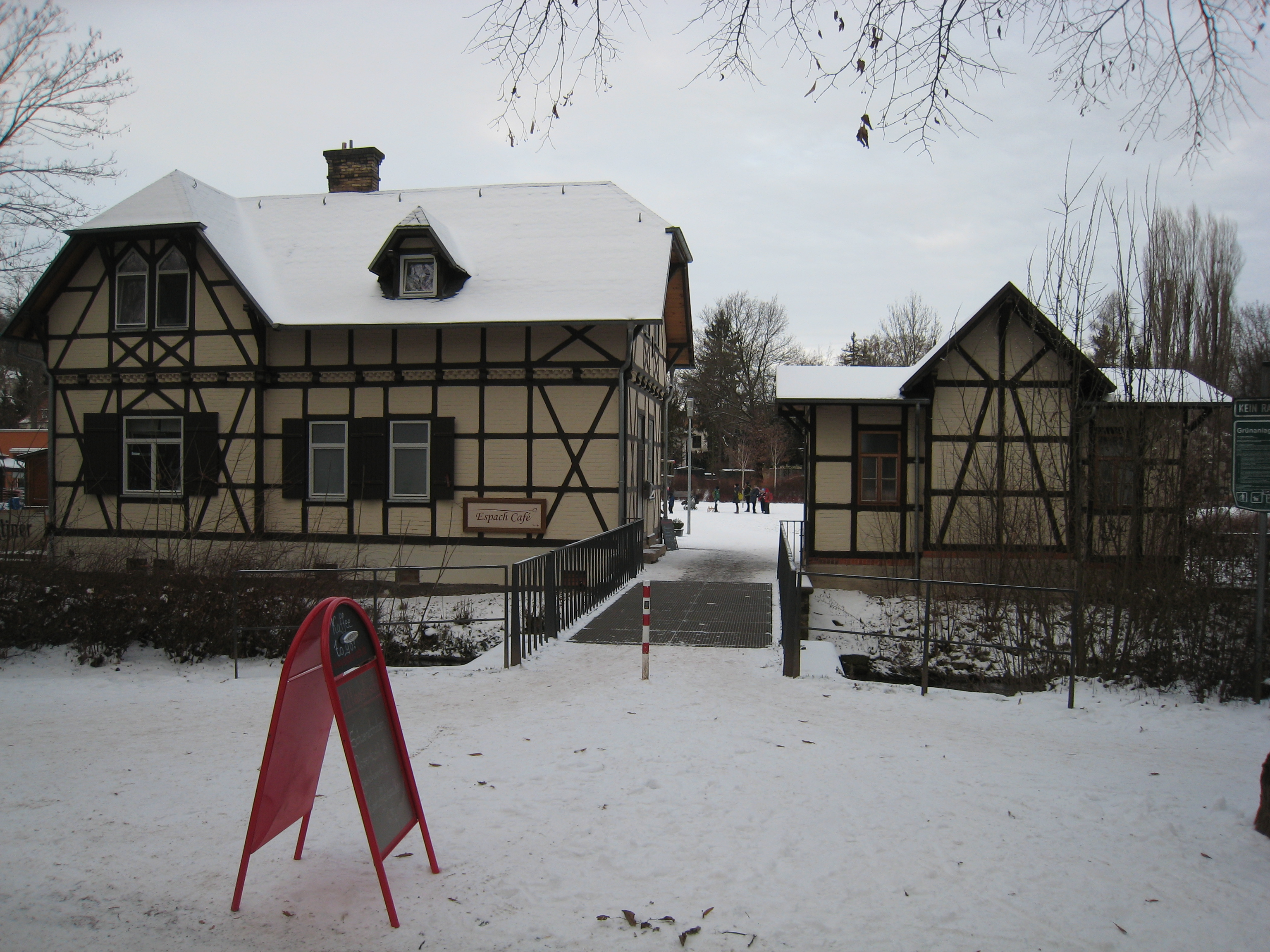 Entrance to the Espach park in Erfurt